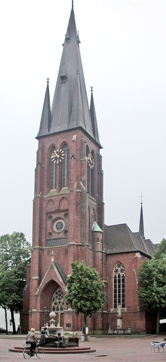 Haltern am See (Germany), Saint Sixtus Church